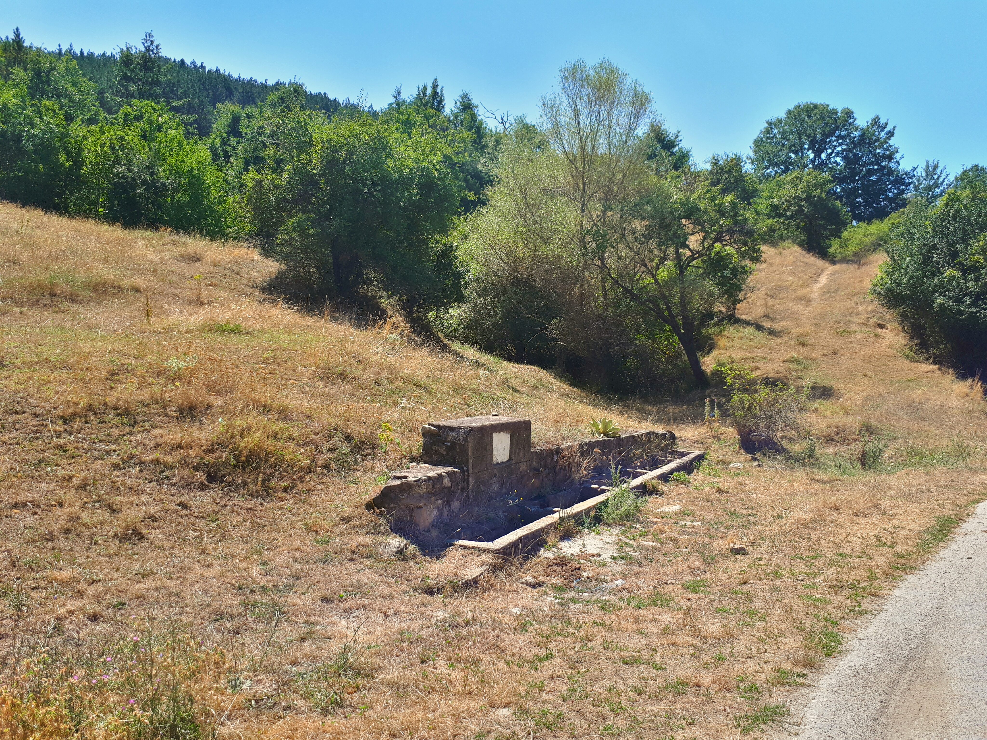 Part of the Veloexpedition in 2017